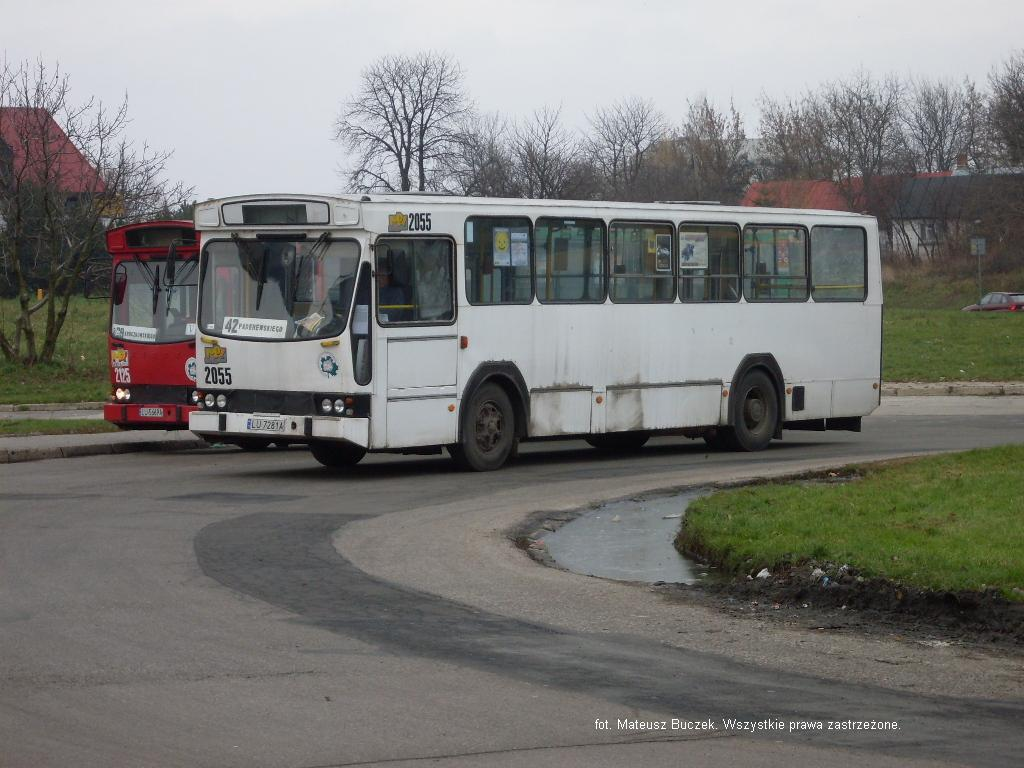 Two Jelcz M11 in Lublin, Poland. From right to left: built 1988 (#2055) and 1990 (#2125), MPK Lublin operator.